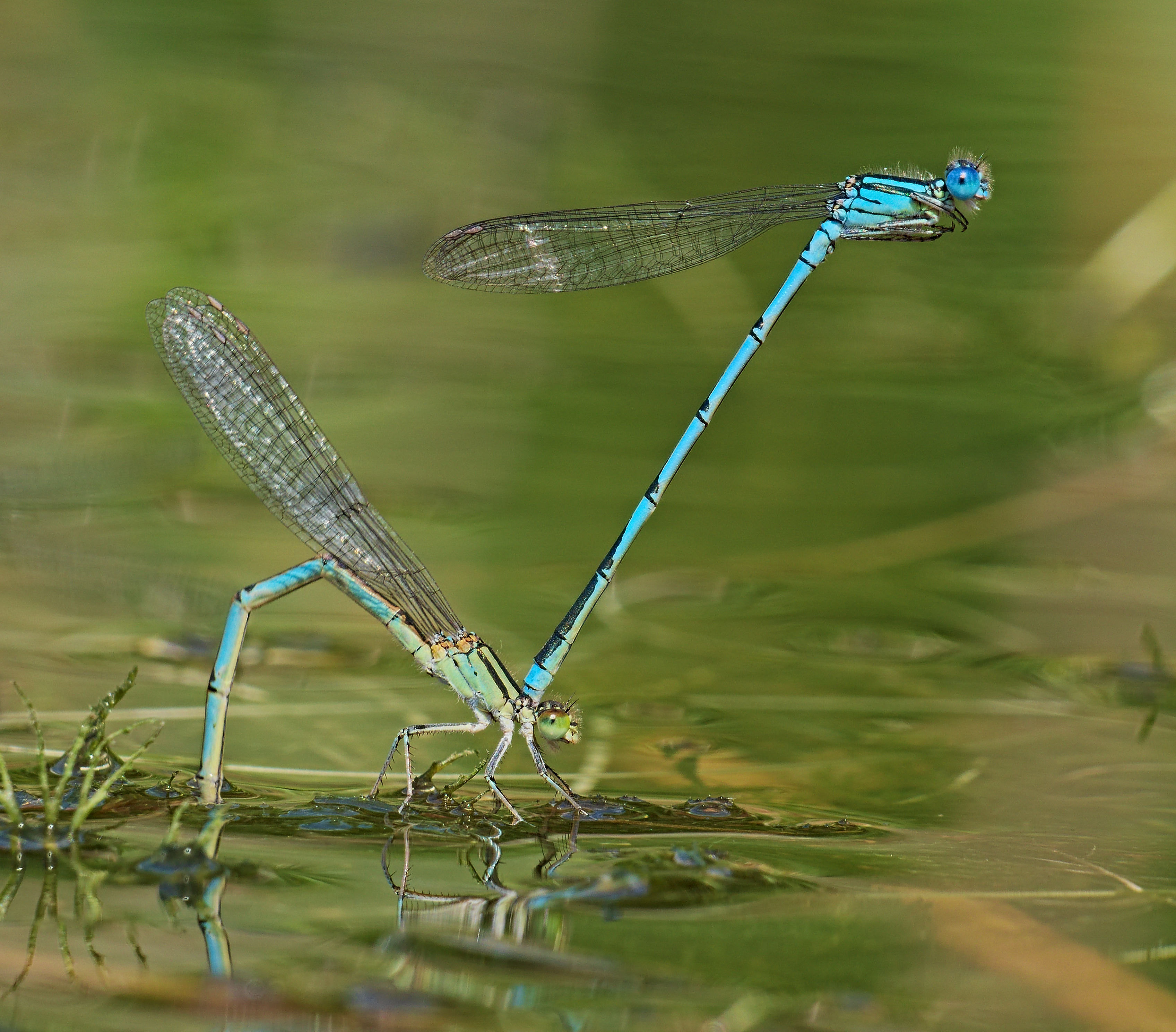 Goblet-marked damselfly - Erythromma lindenii, couple laying eggs. Taken from a boat on the Großer Storkower See, Storkow (Mark), Brandenburg, Germany.